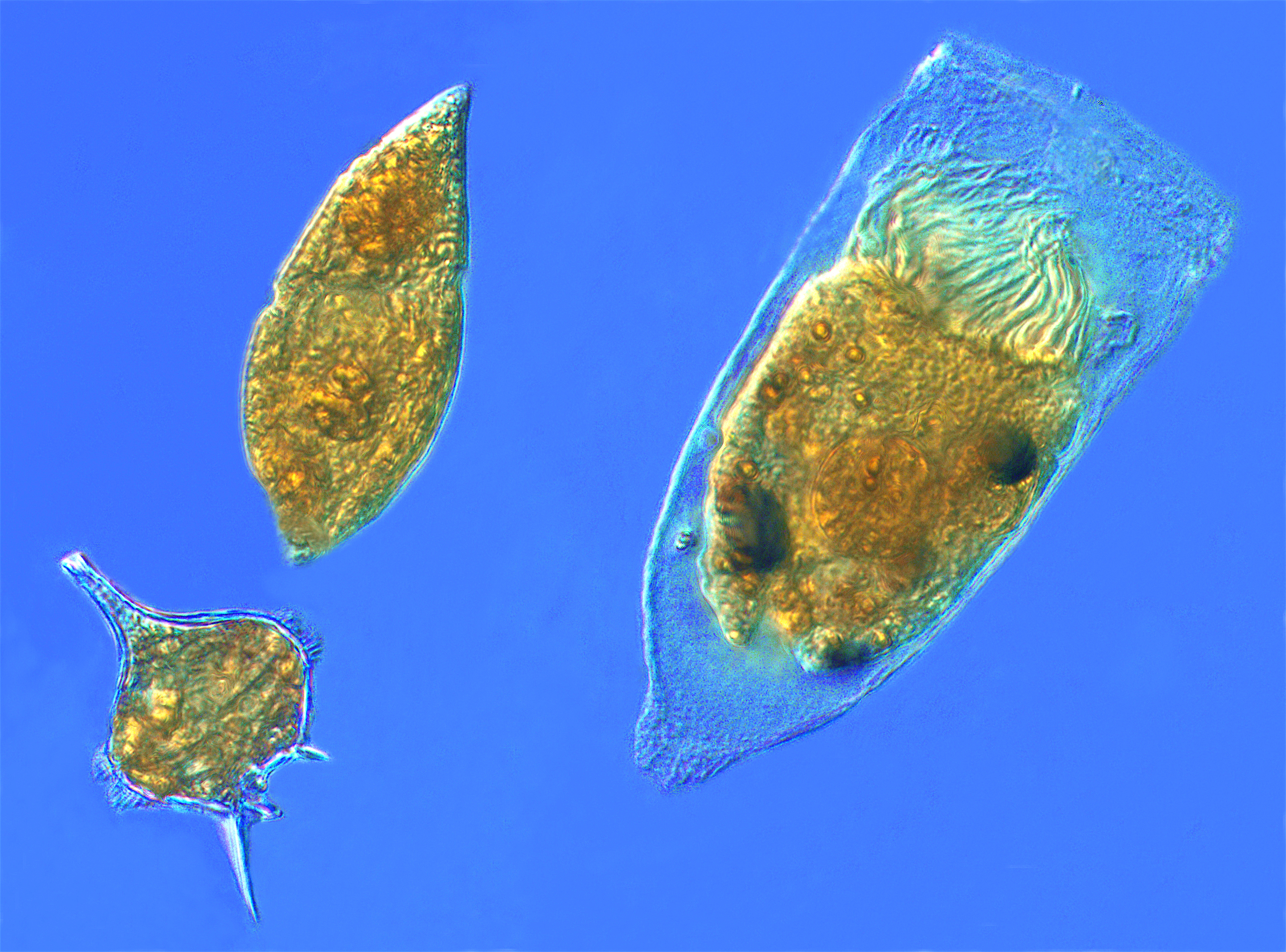 Microzooplankton, the major grazers of the plankton: Dinoflagellates (spindle-shaped 'Gyrodinium', spiny-globe 'Protoperidinium') and a tintinnid ciliate (hairy-topped cell in a shell, 'Favella'). From the Thau Lagoon of Sète, France